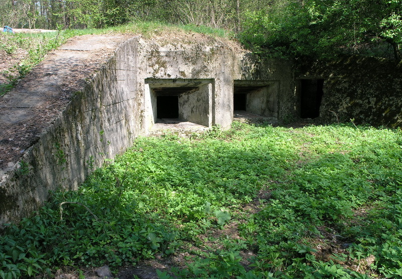 Artillery pillbox 554 in Kiev fortified region. Front view from the left side.